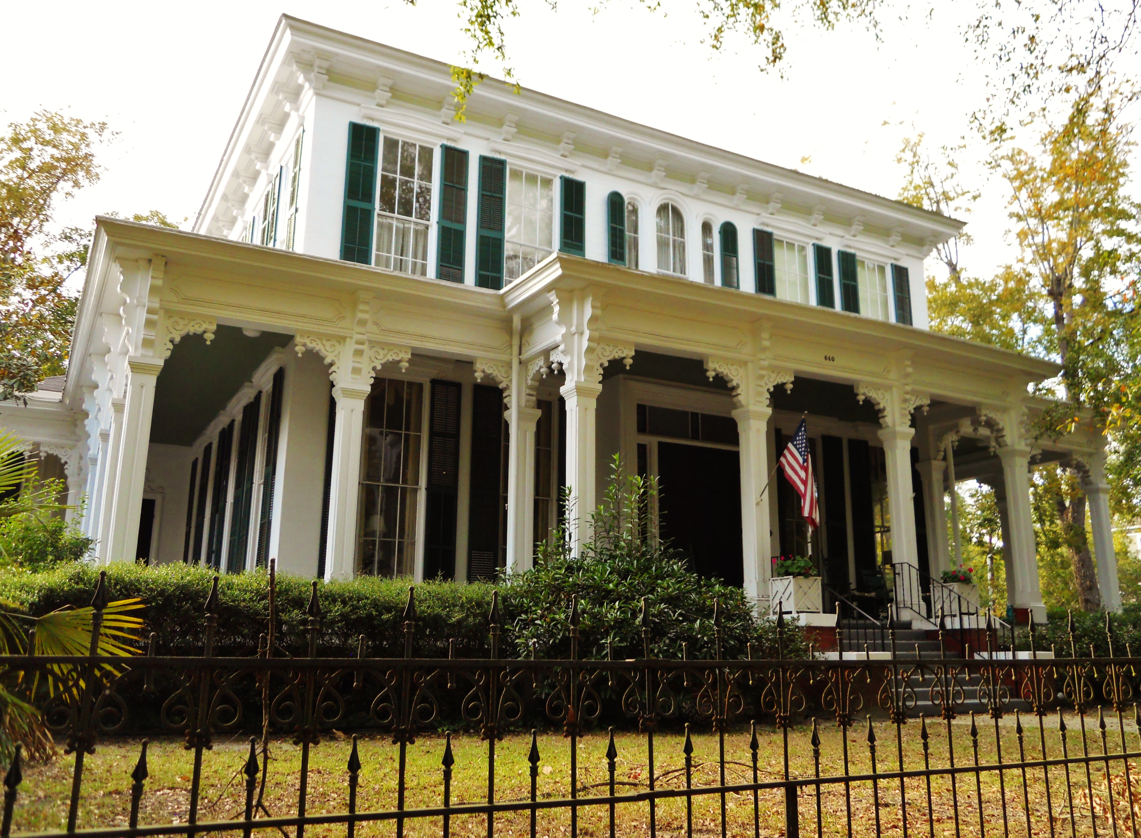 This is a photograph of the Drewry-Mitchell-Moorer House in Eufaula, Alabama.